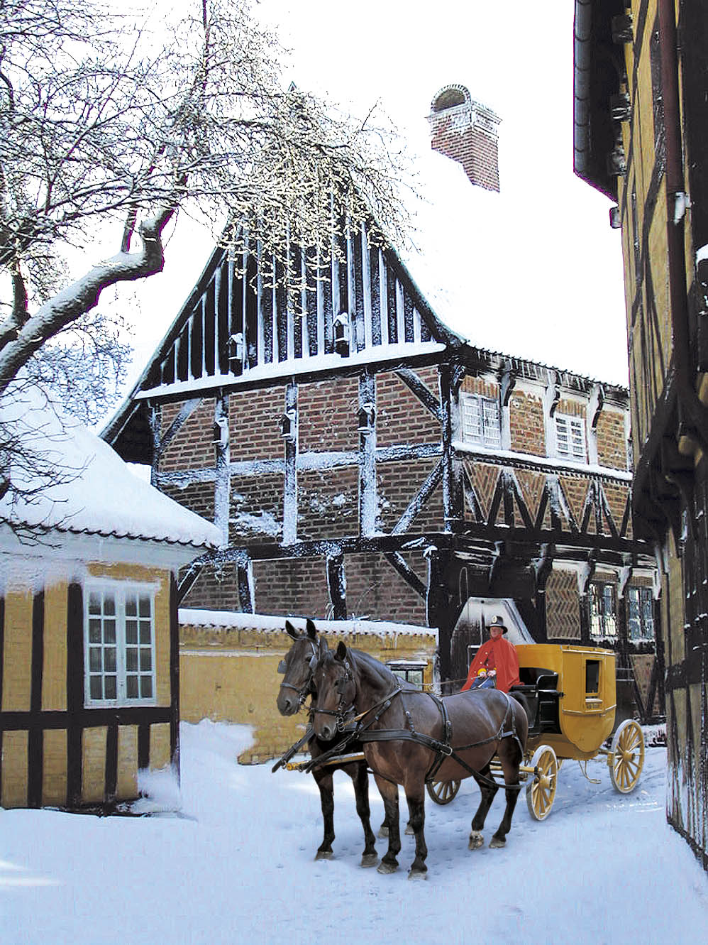 File Name :DSCN0020.JPG. File Size :174.0KB(178142Bytes). Date Taken :2002/02/21 09:52:31. Image Size :1024 x 768. Resolution :300 x 300 dpi. Number of Bits :8bit/channel. Protection Attribute :Off. Hide Attribute :Off. Camera ID :N/A. Camera :E775. Quality Mode :NORMAL. Metering Mode :Matrix. Exposure Mode :Programmed Auto. Speed Light :No. Focal Length :9.1 mm. Shutter Speed :1/466.4second. Aperture :F3.4. Exposure Compensation:0 EV. White Balance :Auto. Lens :Built-in. Flash Sync Mode :Normal. Exposure Difference :N/A. Flexible Program :N/A. Sensitivity :Auto. Sharpening :Auto. Image Type :Color. Color Mode :N/A. Hue Adjustment :N/A. Saturation Control :N/A. Tone Compensation :Normal. Latitude(GPS) :N/A. Longitude(GPS) :N/A. Altitude(GPS) :N/A